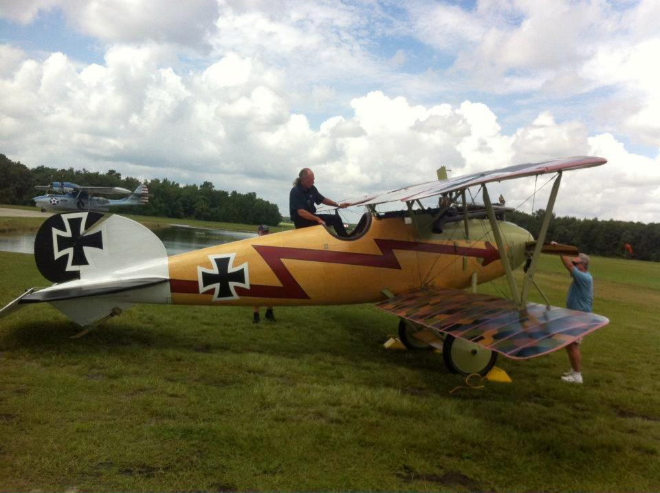 Kermit Weeks boards his Albatros D.Va reproduction at Fantasy of Flight in Polk City, Florida.